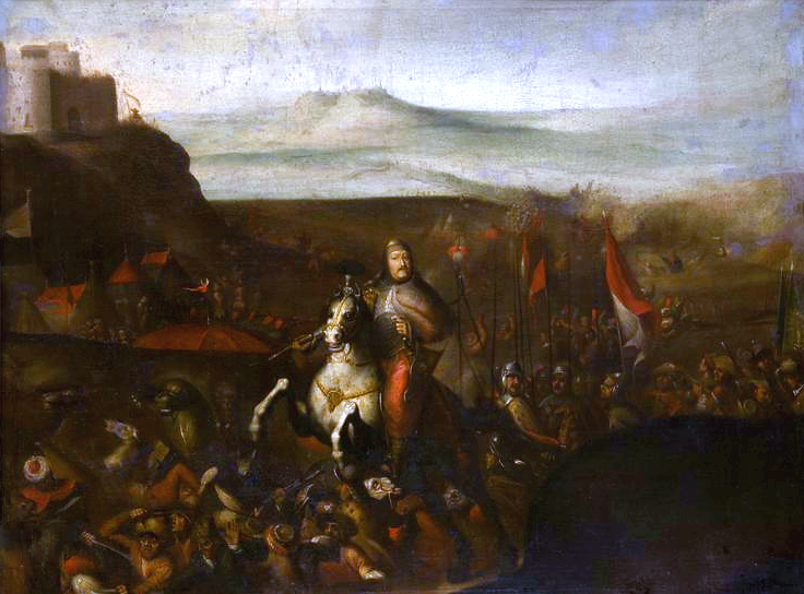 John III of Poland during the battle of Párkány in 1683